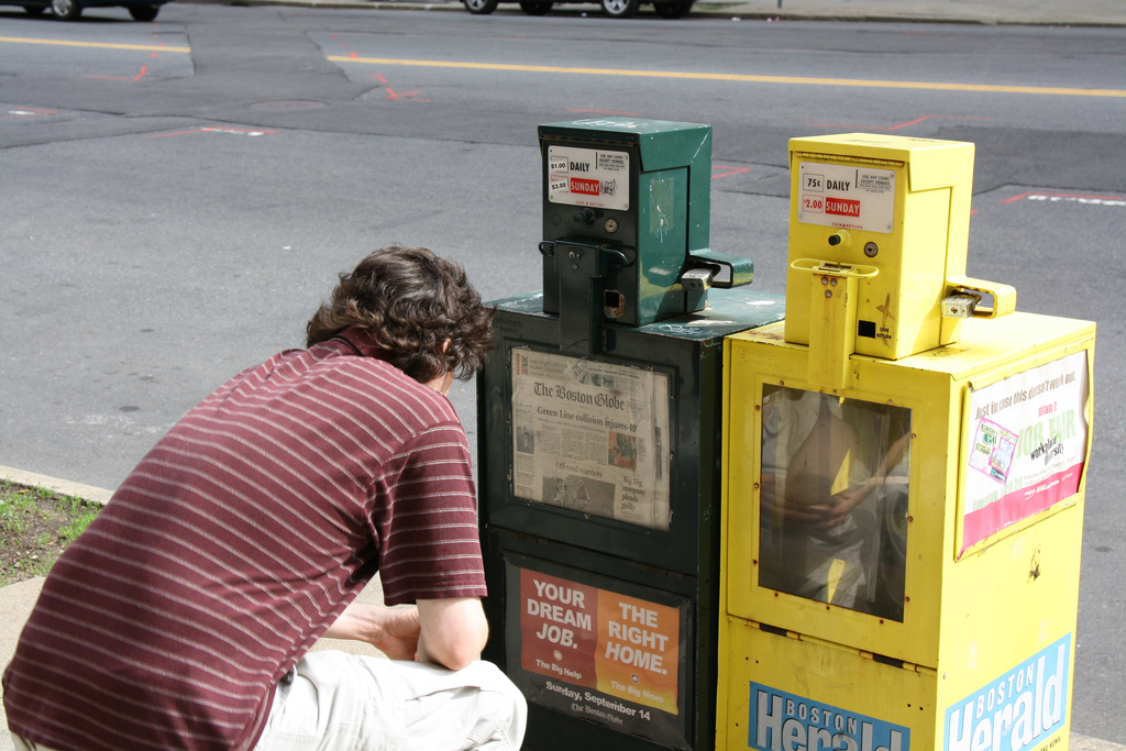 newspaper vending machines, Boston, USA